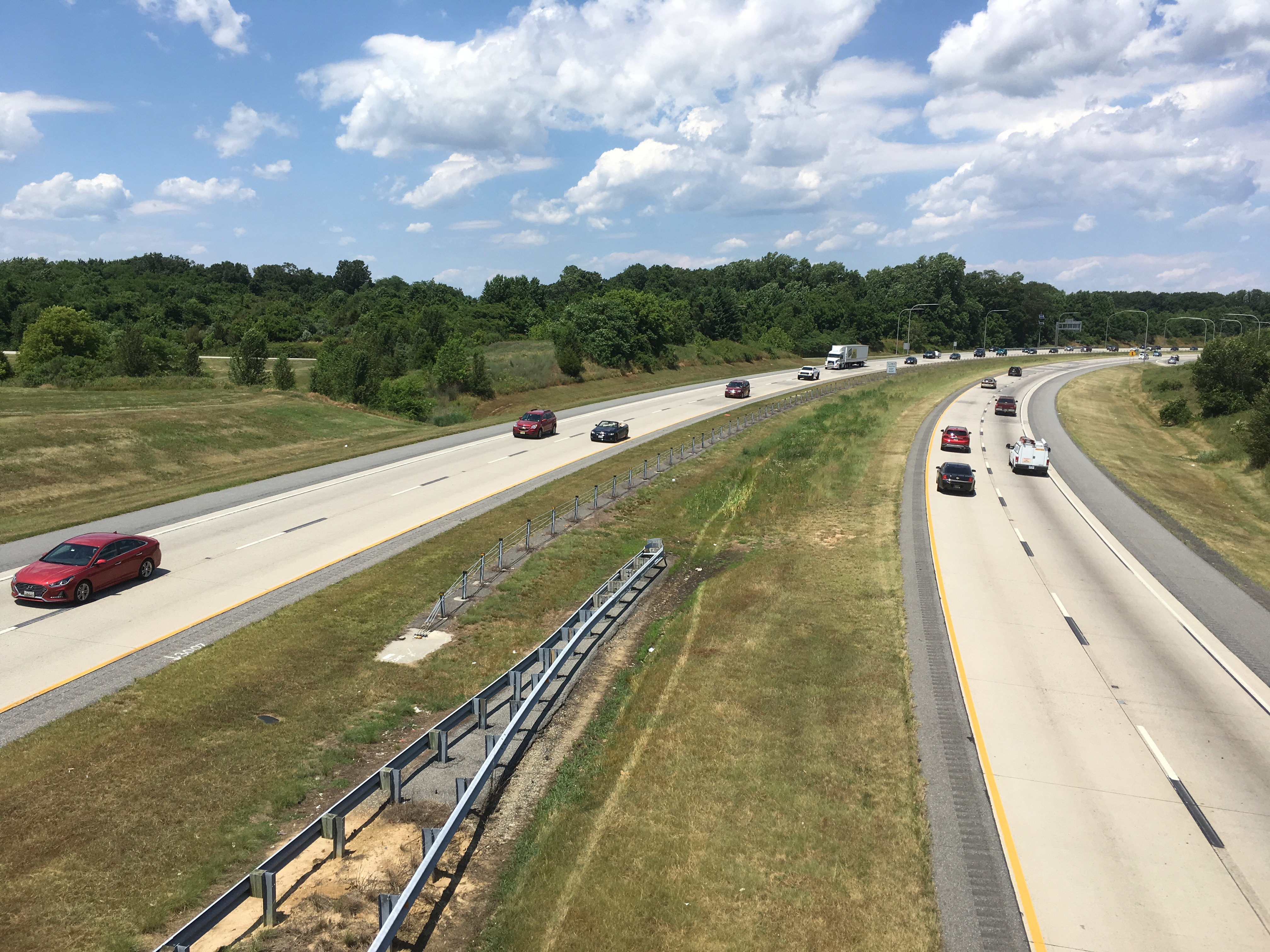 Northbound Delaware Route 1 from the Delaware Route 299 (Middletown Odessa Road) overpass in Middletown, Delaware